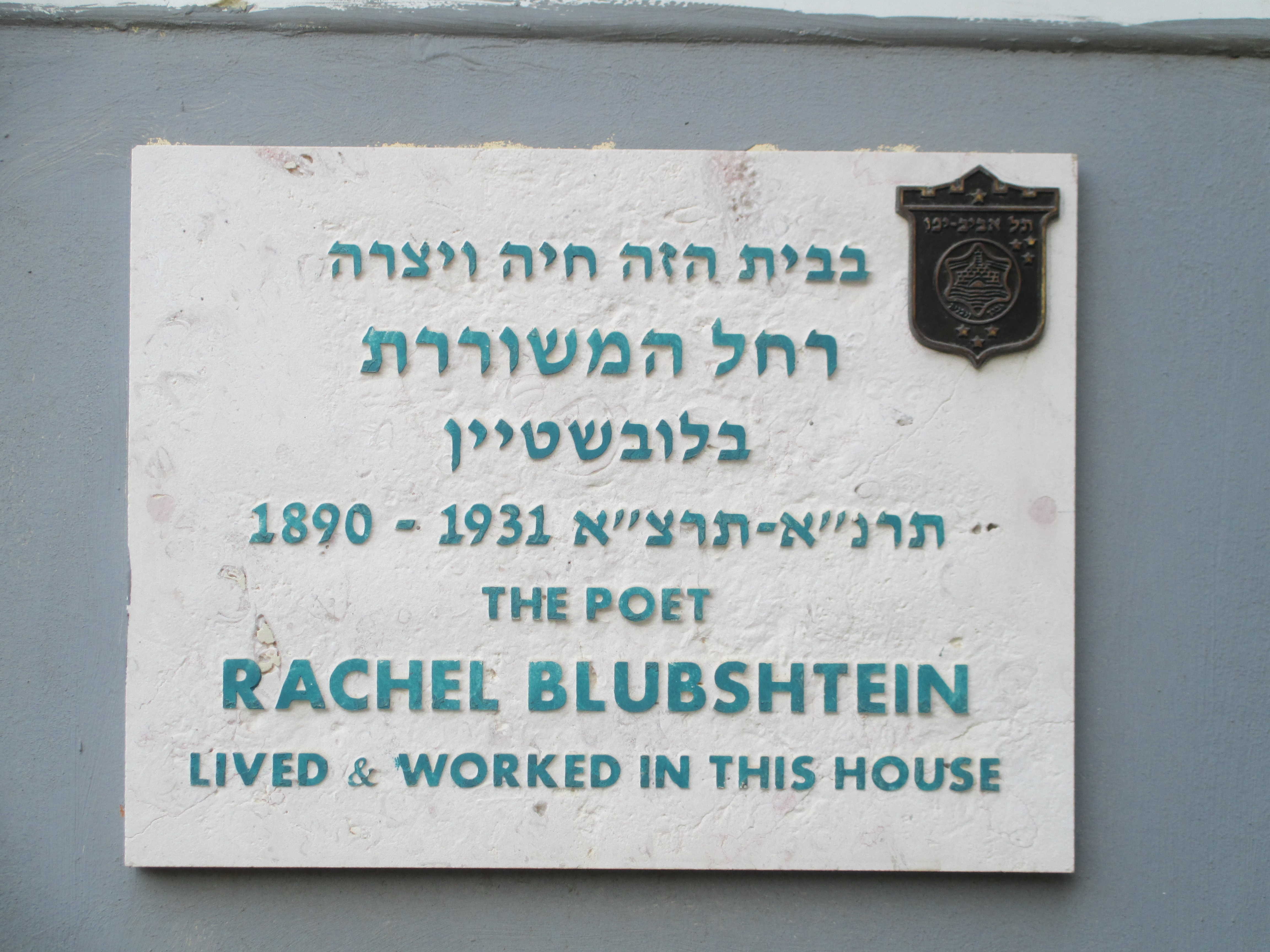 Memory table in the last residence of the poet Rachel in Tel Aviv